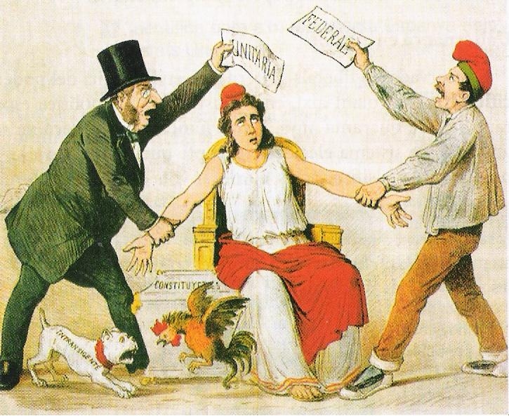 Caricatura de La Republica Española entre la Rep. Federal (o federalistas representados por José María de Orense) y la Rep. Unitaria (o unitarios representados por Emilio Castelar).